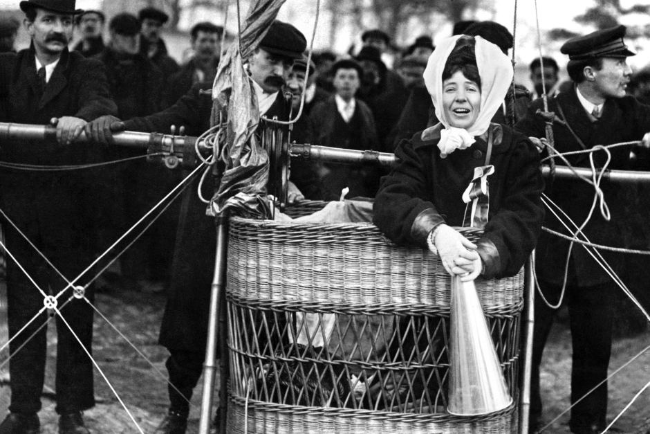 Australian-born suffragette Muriel Matters prepares to take off in a dirigible air balloon from Hendon airfields, London, 16 February 1909